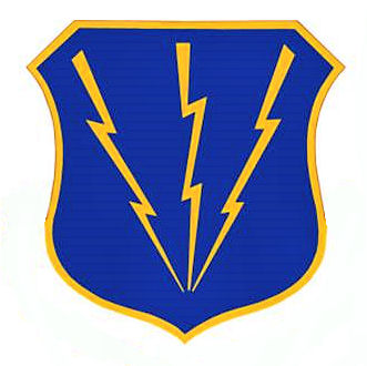 Emblem of the 3d Air Division, approved 14 March 1955)